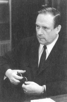 Photograph of the Finnish physicist Kalervo Vihtori Laurikainen (1916–1997).